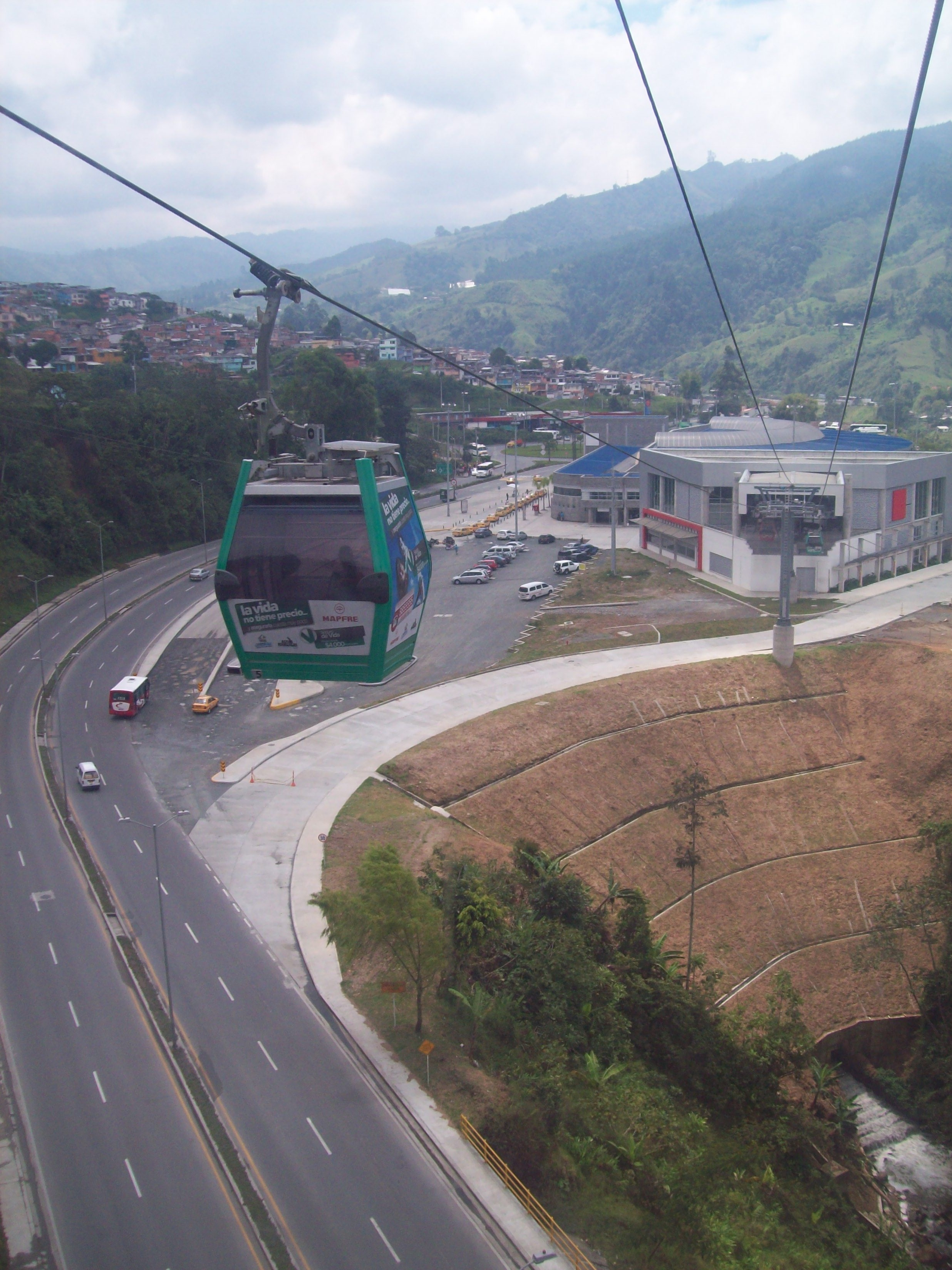 Transport system in Manizales based on wire-suspended cabins